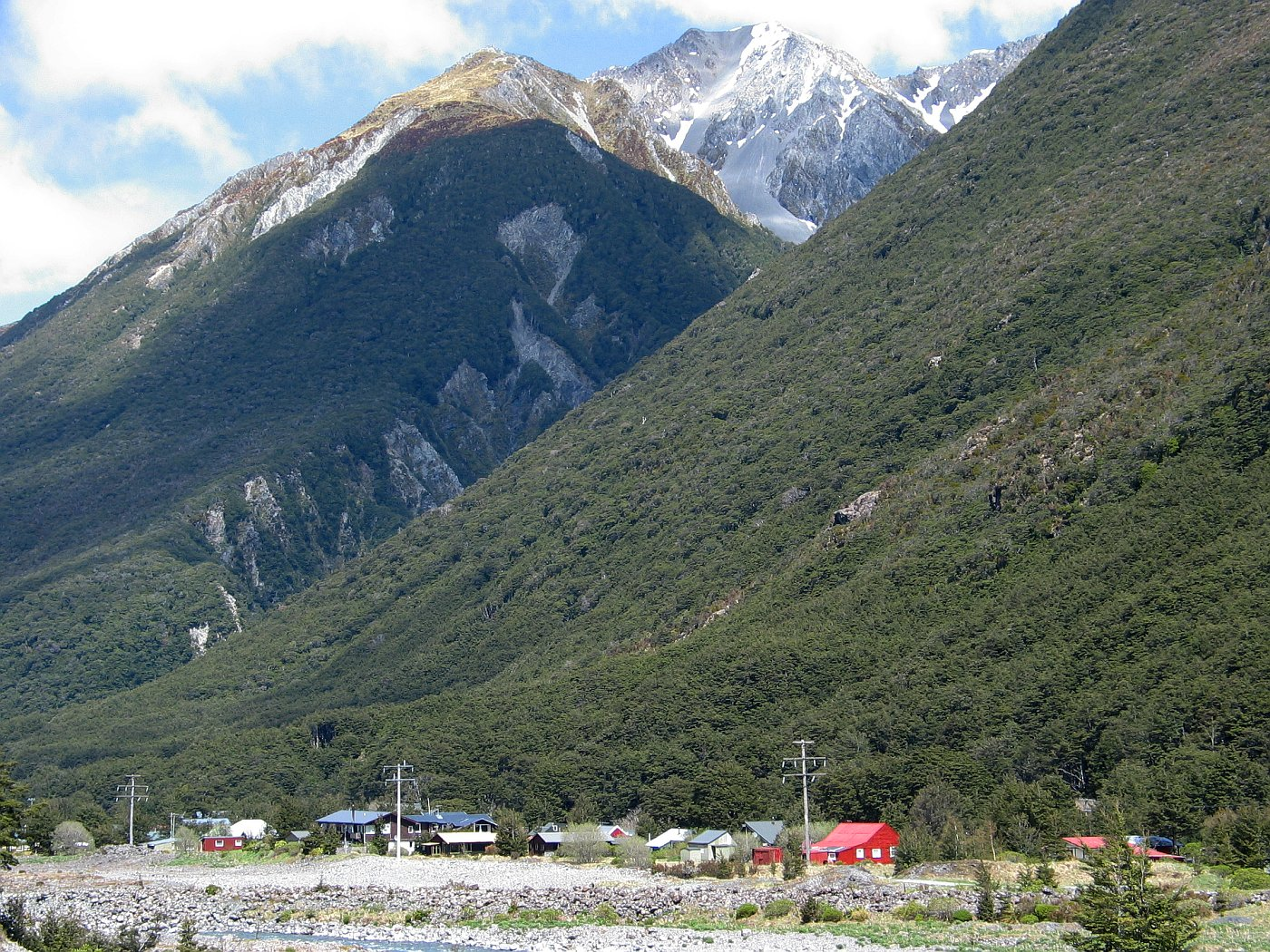 Arthur's Pass Village, South Island, New Zealand